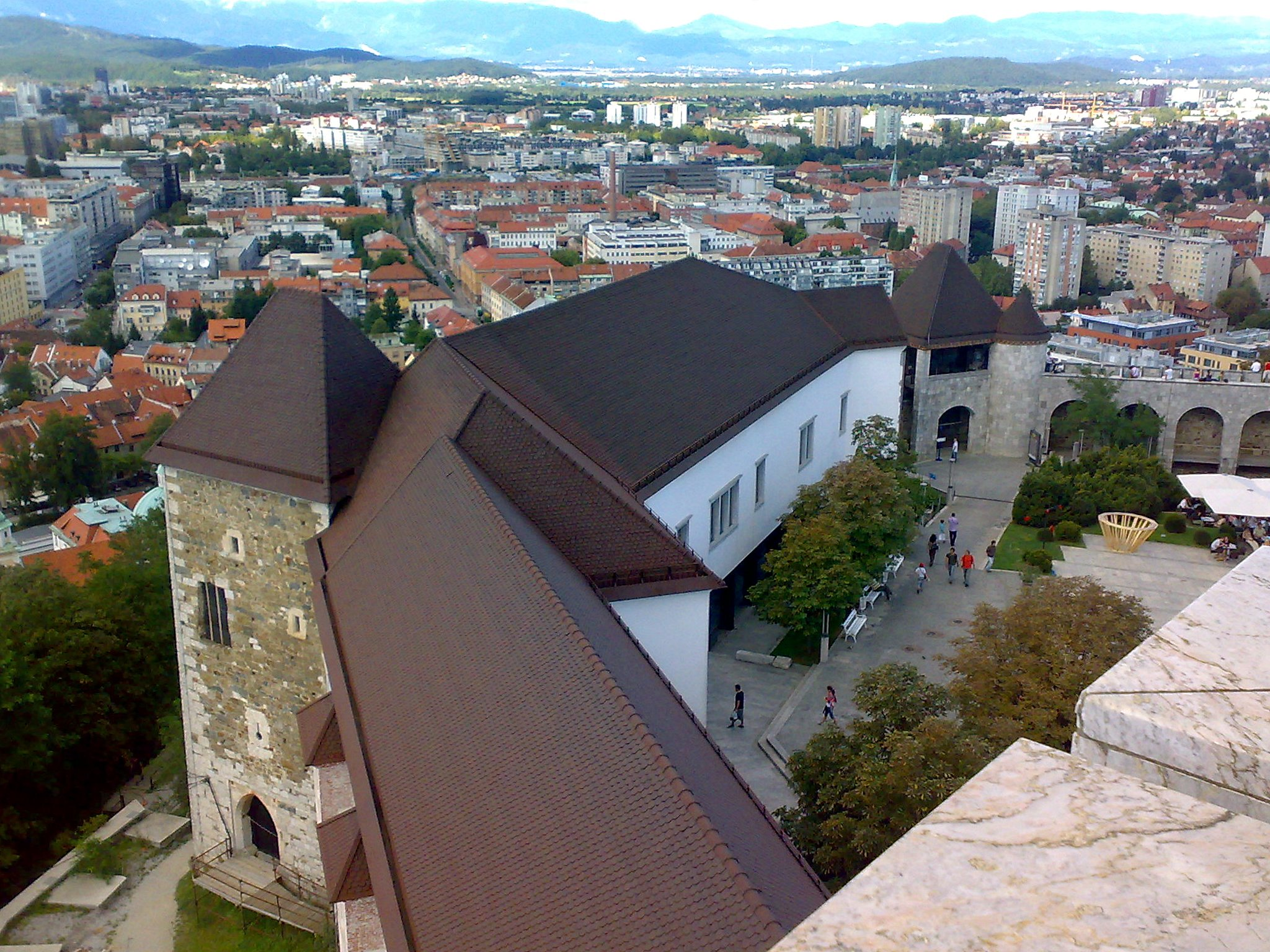 Ljubljana - landscape view from the castle tower